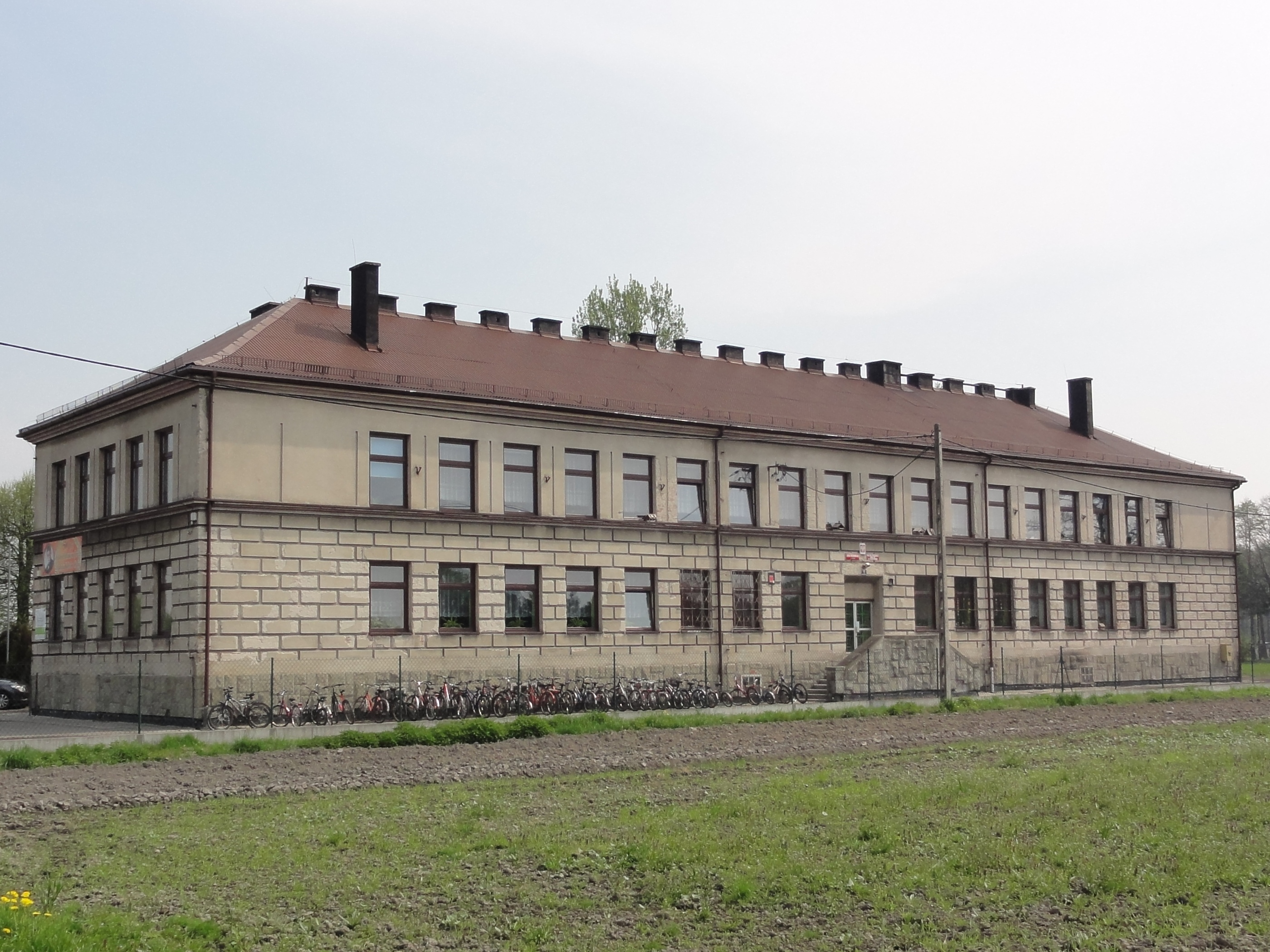 Second elementary school and kindergarten in Chybie, but often associated with Zarzecze.